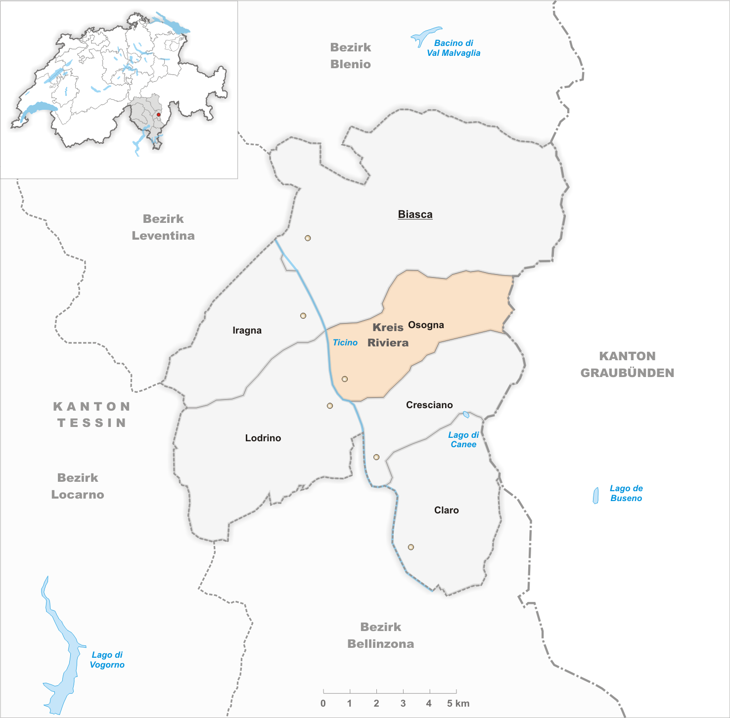 Municipality Osogna